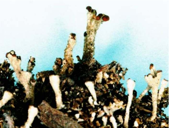 Cladonia cariosa (Ach.) Spreng., 1827 (photograph of a herbarium specimen) Growing on a rock outcrop in an open field at Soldiers Delight Natural Environment Area, Baltimore County, Maryland, USA; collected and identified by Elmer G. Worthley (No. L-9, 9 Mar 1980); specimen is now in the Lichen Herbarium of the New York Botanical Garden.